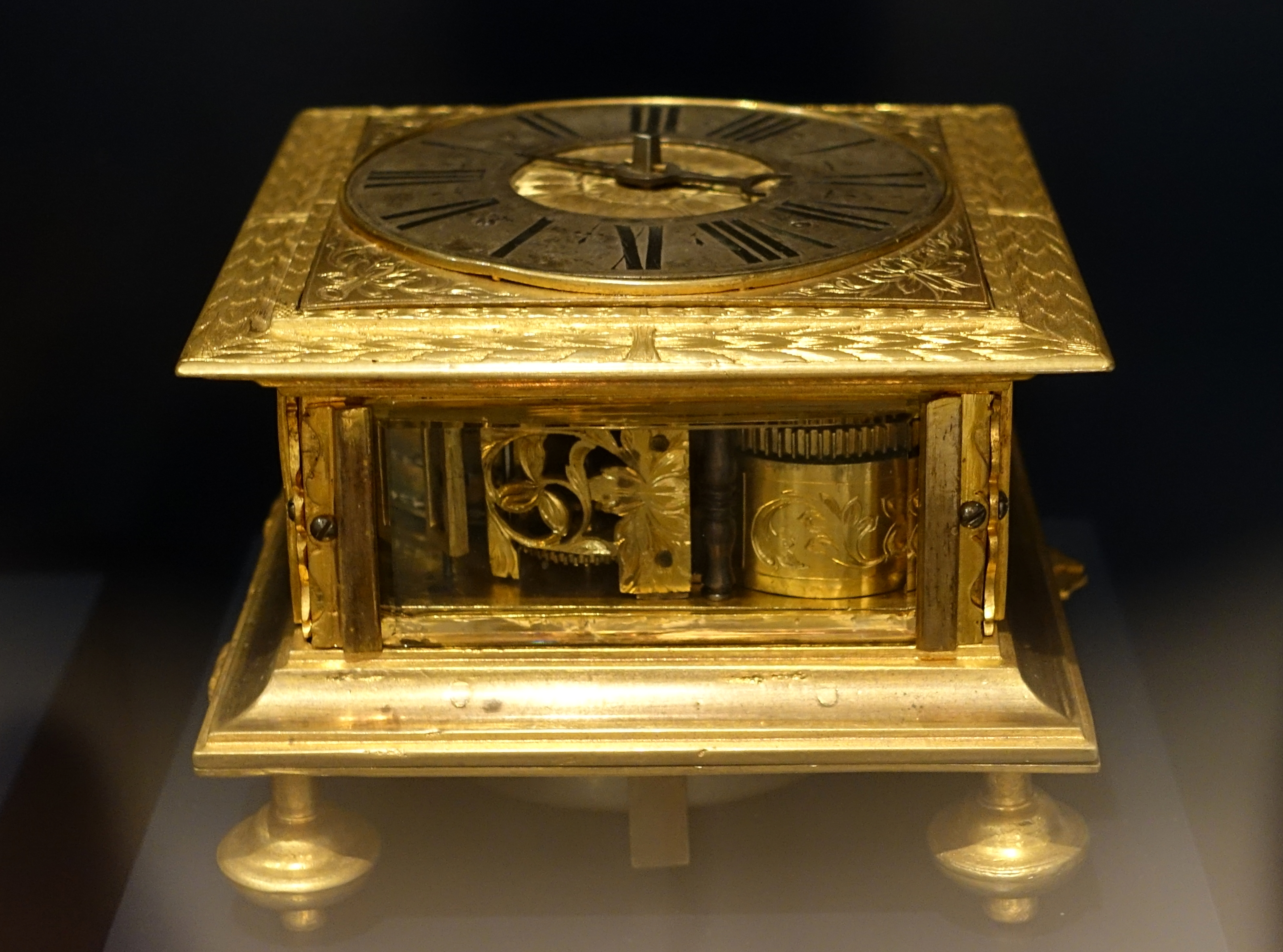 Exhibit in the Museo Nacional de Artes Decorativas, Madrid, Spain. This work is in the public domain because the artist died more than 100 years ago.